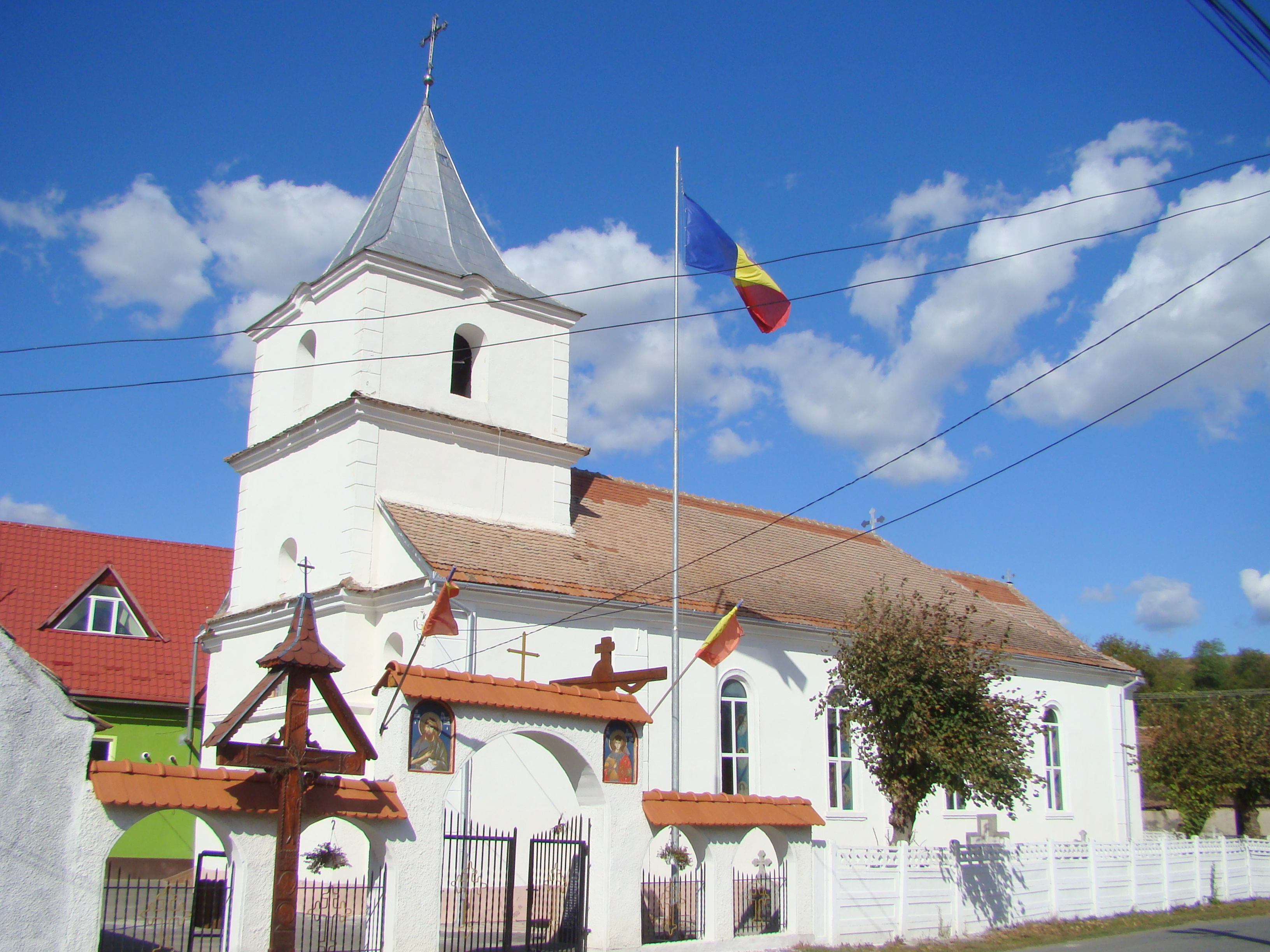 Church of St. John the Baptist in Boholț, Brașov County, Romania